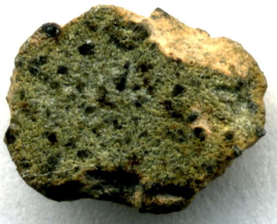 Shergottite (NWA 2373) (6 mm across) Almost 100 rocks are known that demonstrably come from the Planet Mars. Meteorite researchers and collectors generally refer to the Martian rocks as the SNC meteorites - the shergottites, the nakhlites, and the chassignites. Most of these Martian rocks are shergottites. Shergottites are a group of Martian rocks named after the Shergotty Meteorite, the type example. This is a shergottite that was found and identified in 2004. This is a small sample from the NWA 2373 Meteorite (NWA = "Northwest Africa"). The light brown-colored material is the outer weathered surface of the rock. The greenish and black speckled surface shows the crystal & mineral make-up of the rock itself. Mineral analysis performed by Theodore Bunch and James Wittke at Northern Arizona University has shown that NWA 2373 is composed principally of olivine, pigeonite & augite pyroxene, plagioclase feldspar glass (maskelynite), chromite, Ti-magnetite, chlorapatite, and trace amounts of other minerals. It looks like an ultramafic rock, but it's apparently a basaltic shergottite (also regarded as a picritic shergottite). NWA 2373 is reportedly paired with the NWA 1068 Meteorite. Available isotopic dates on the NWA 1068 Meteorite show it formed 185 million years ago (late Amazonian, equivalent to Earth's Early Jurassic), and was ejected from the Martian surface about 2.2 million years ago (information based on cosmogenic isotope analysis).